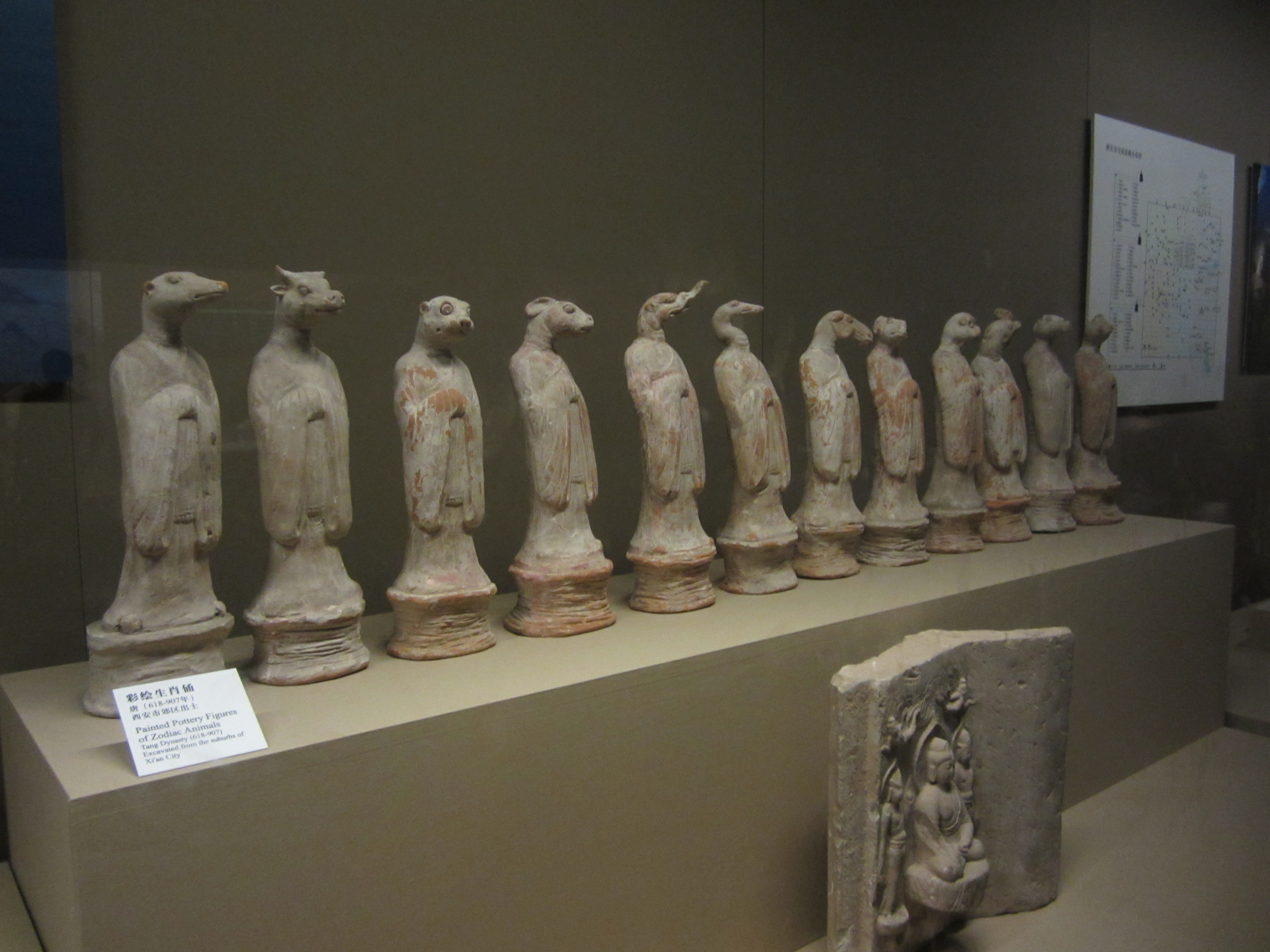 Shiershengxiao(The Chinese zodiac, made up of Rat, Ox, Tiger, Rabbit, Dragon, Snake, Horse, Goat, Monkey, Rooster, Dog and Pig) Sculptures in Shaanxi History Museum，designed and made in tang dynasty, which dates back to 1200 years ago.